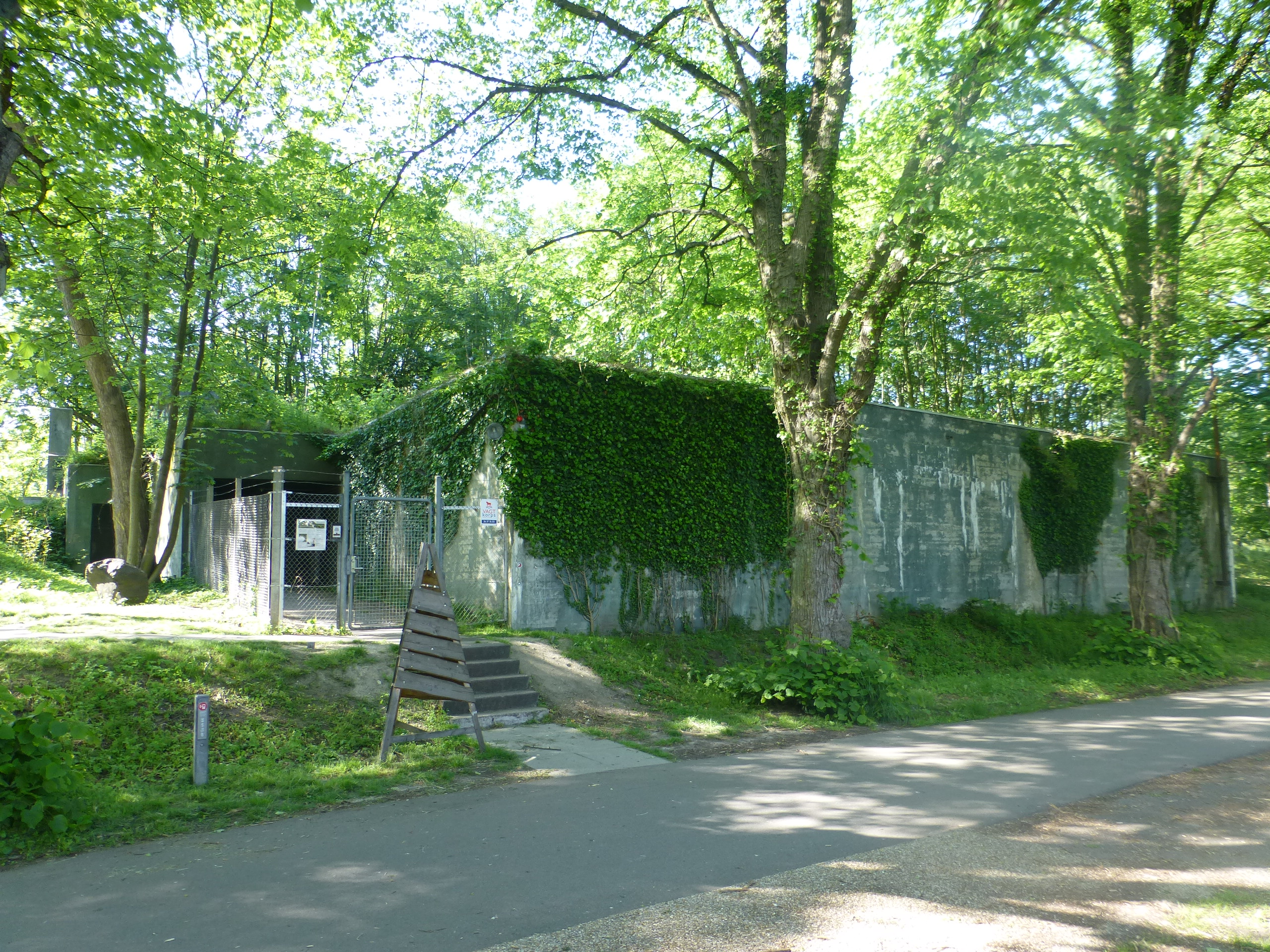 The experience center Ejbybunkeren in Rødovre in Denmark. It was originally build as a part of the fortification Vestvolden around Copenhagen.